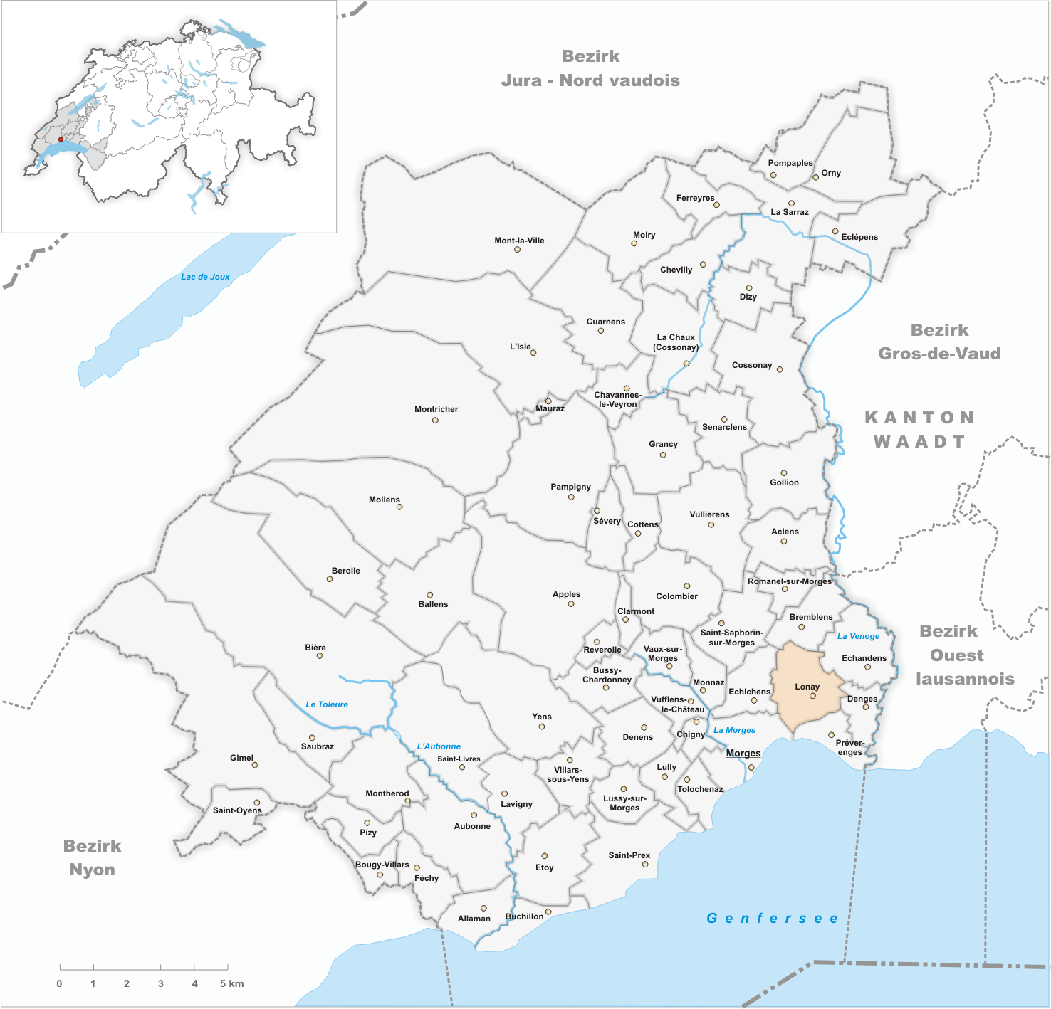 Municipality Lonay